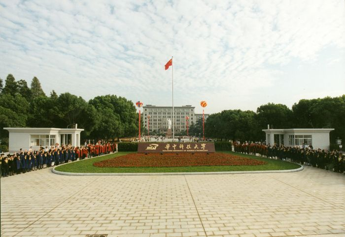 Gate of HUST